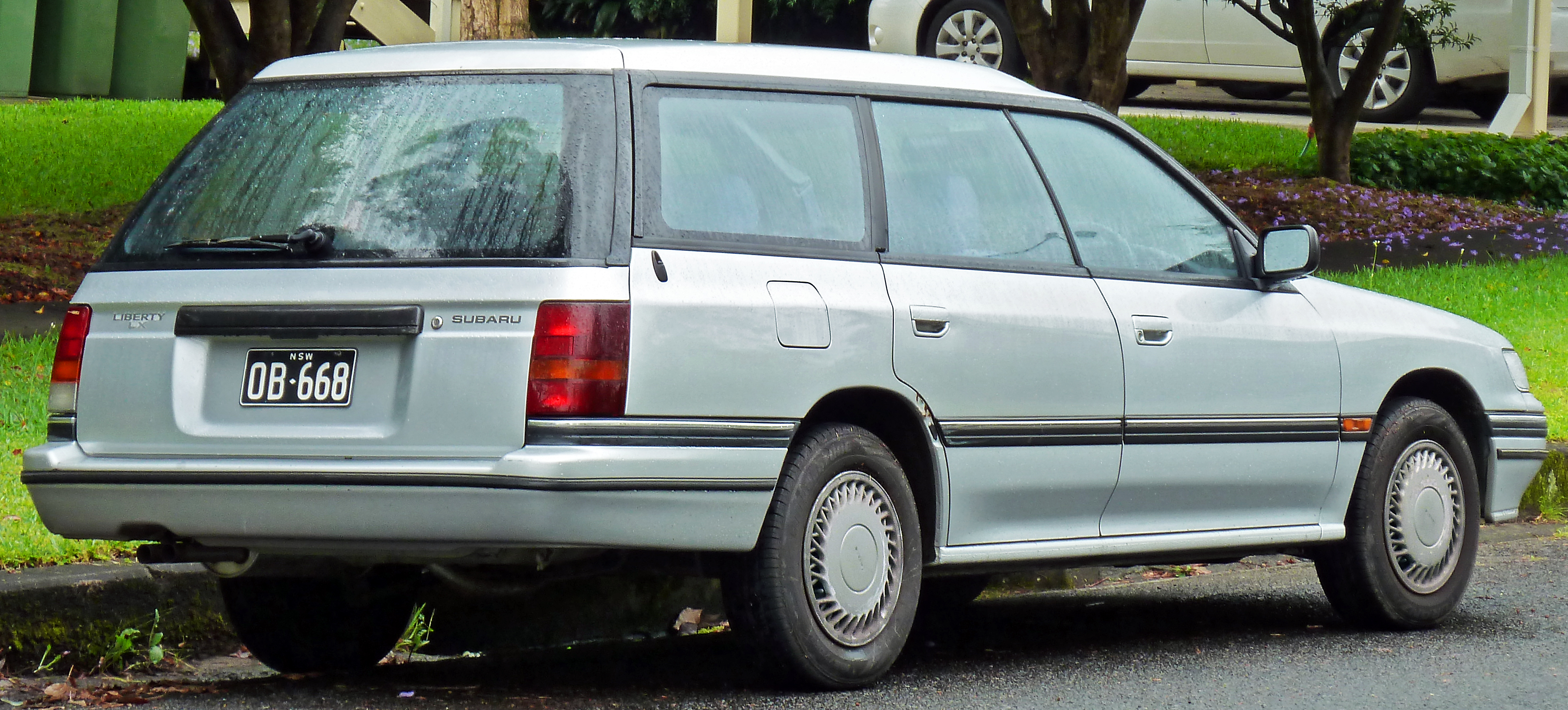 1993 Subaru Liberty (BF6) LX 2WD station wagon. Photographed in Roseville, New South Wales, Australia.